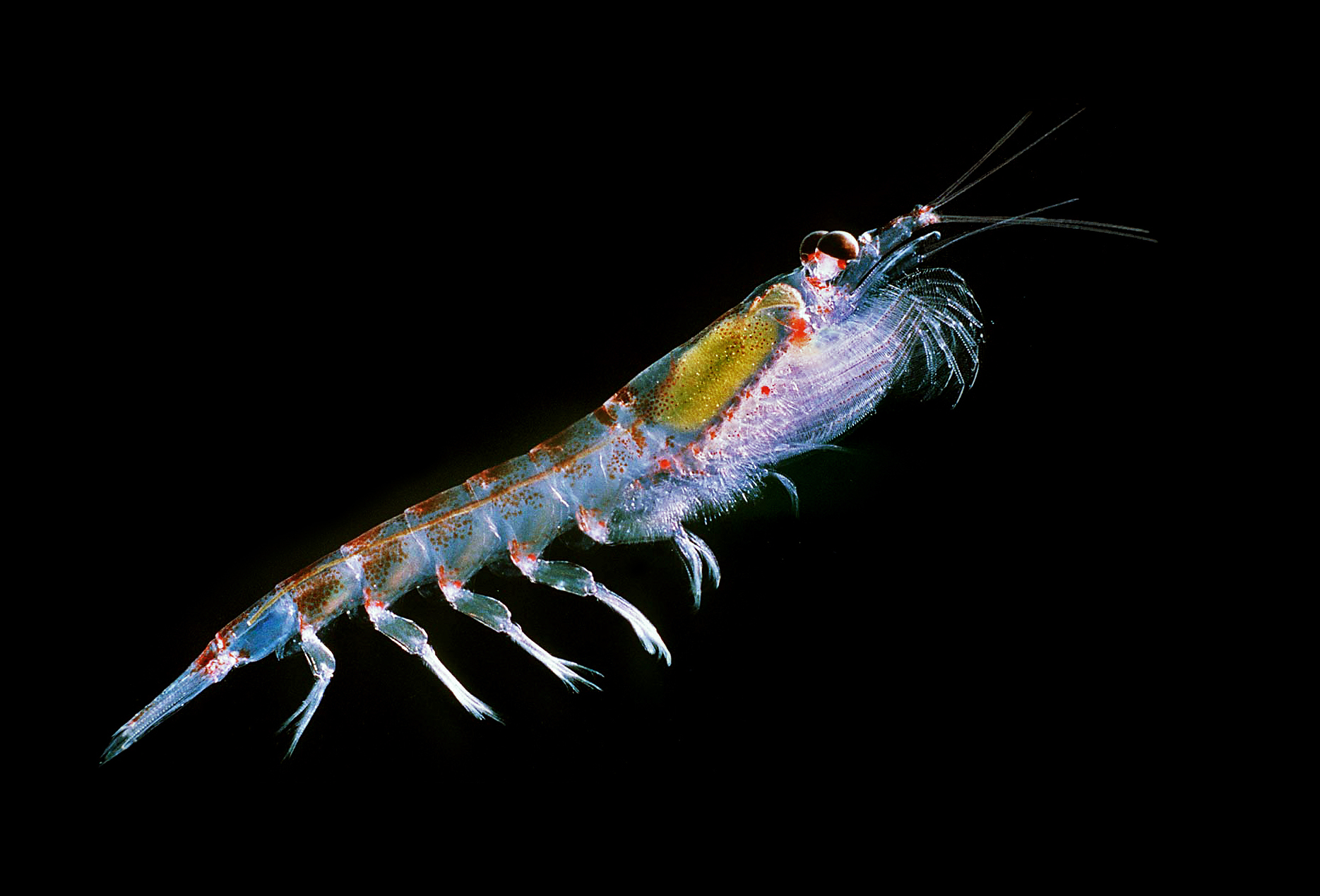 Antarctic krill Euphausia superba. This is the startimage of the virtual microscope of krill where you can click into details of the animal to get higher magnifications, like the gills, the feeding basket or the swimming legs, up to raster electron and transmission electron images, also some videos - there are many links to jumpoff sites for educators, like from the SCIENCE MAGAZINE. In natural hovering position - the red organs produce the bioluminescence - the hepatopancreas is filled with green phytoplankton, the food of krill, the strait gut in the back is filled with the empty shells of phytoplankton - in the front you see the compound eye